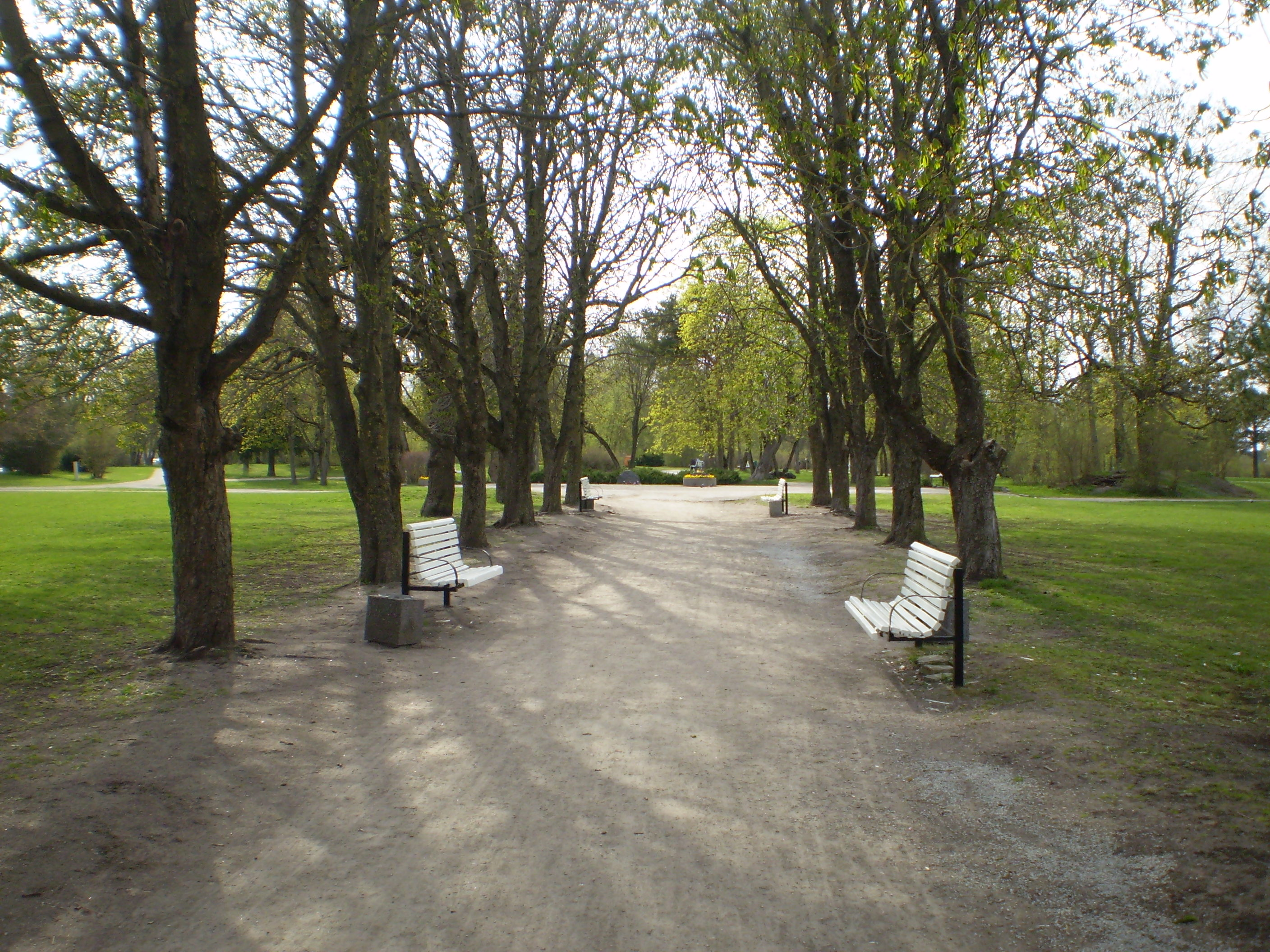 Central park of Keila town